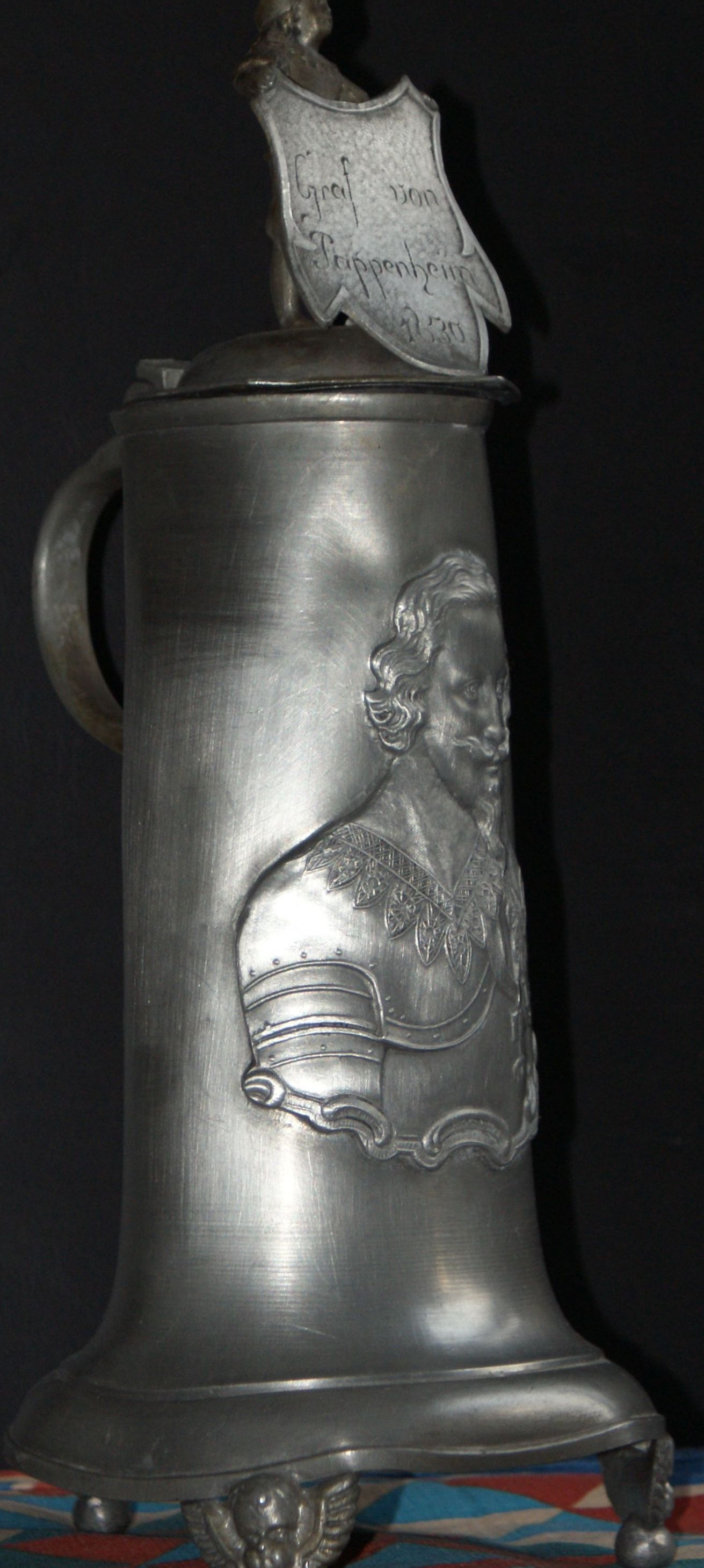 Pewter tankard from 17. century